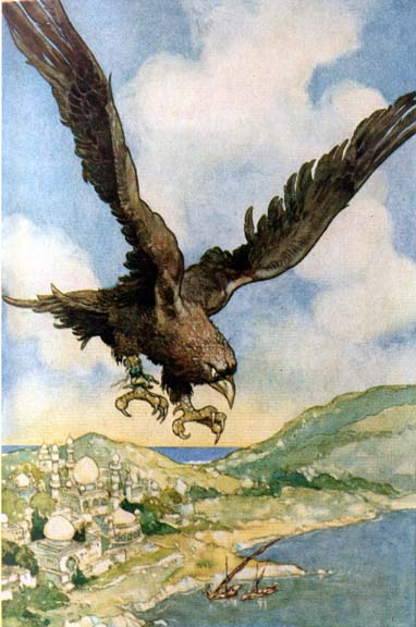 The stories for Arabian Nights Entertainments were published by "Longmans, Green, and Co., London, in 1898, by Andrew Lang (1844-1912). The Color Illustrations are by Rene Bull (1870-1946) the lager Black & white images are by Henry Justice Ford(1872-1941)